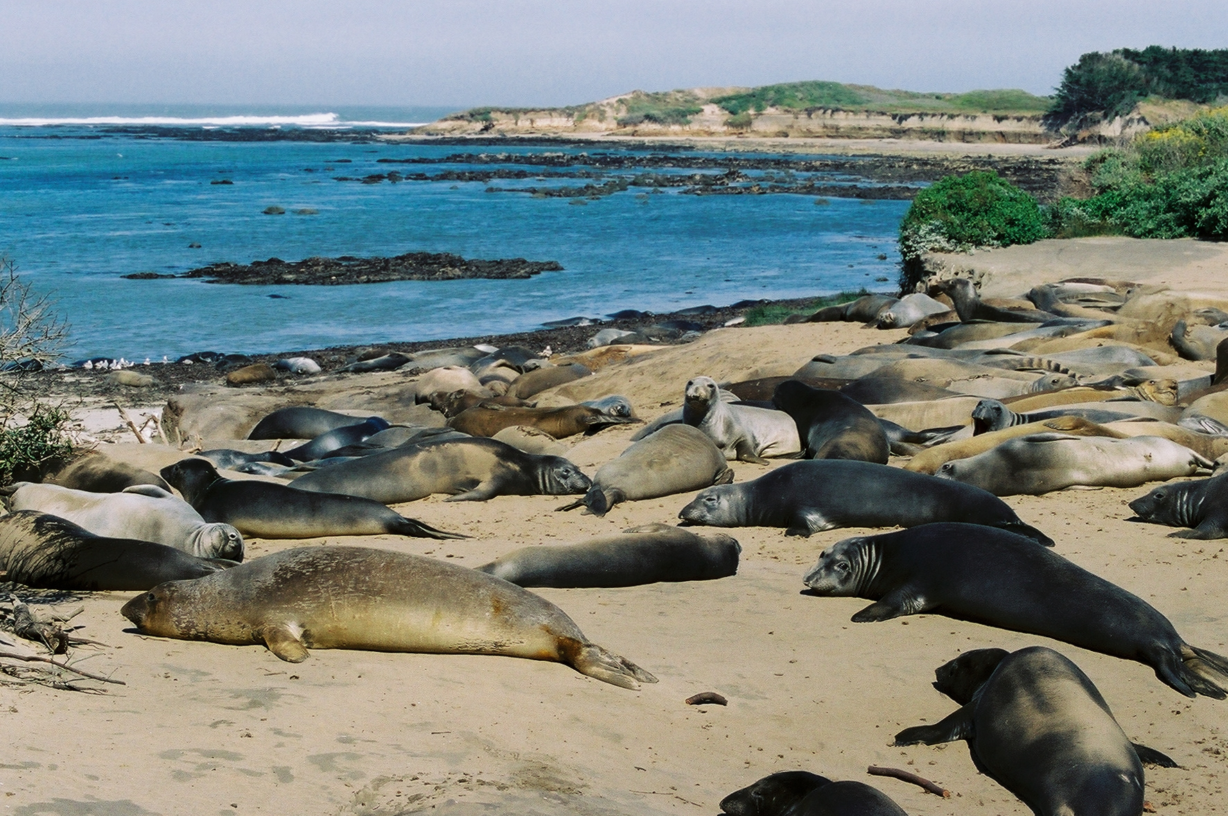 Female and young male elephant seals hauled out to molt at Año Nuevo State Park, California